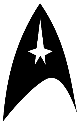 Star Trek Emblem, crew insignia